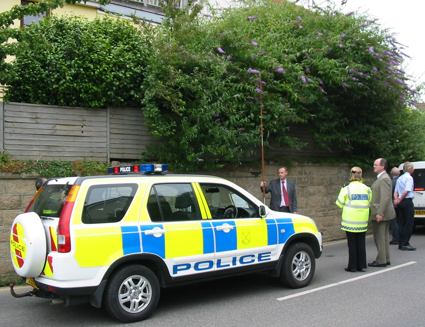 Visite du Branchage, Saint Helier, Jersey, July 2008